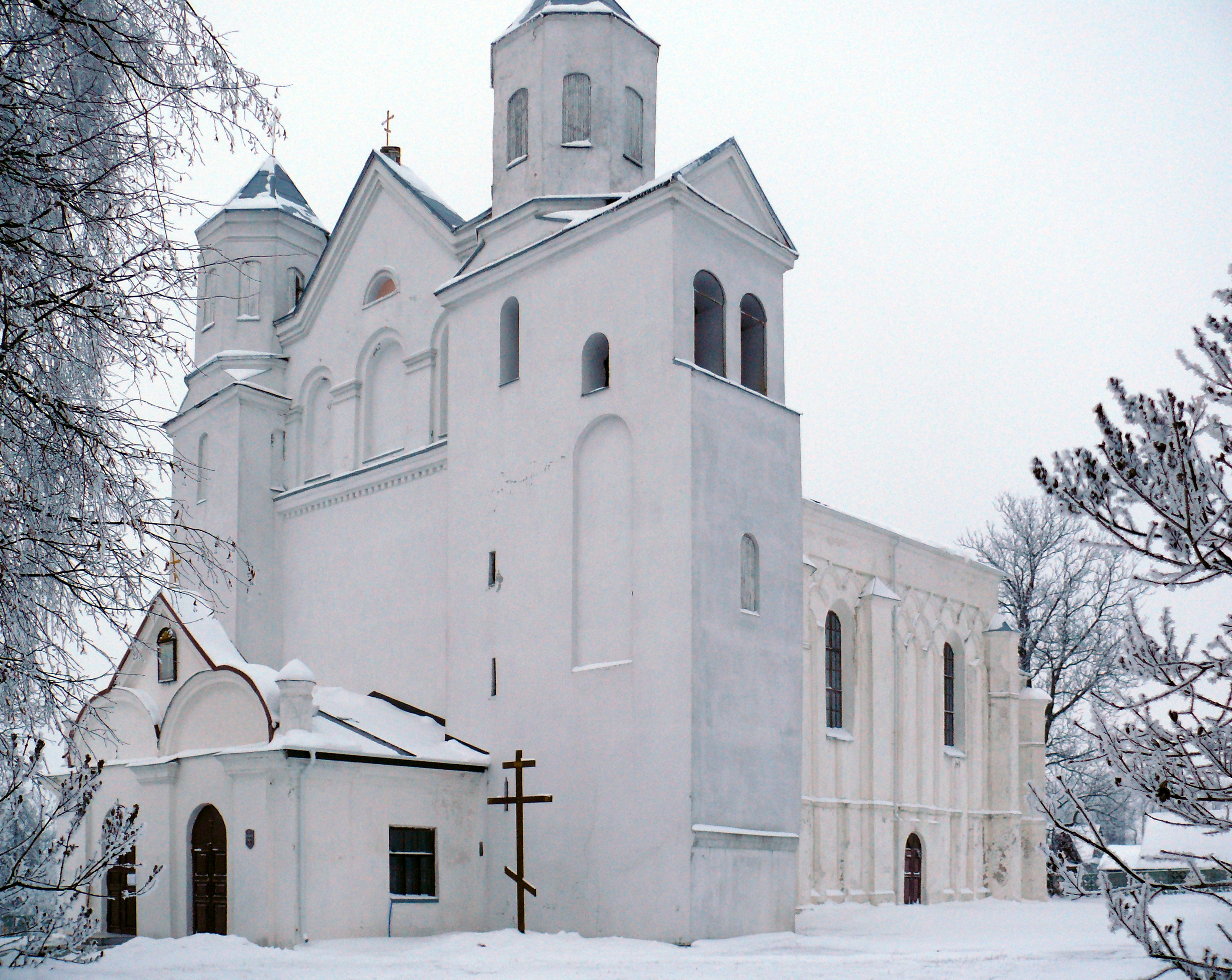 Saint Boris and Gleb Church in Navahrudak, Belarus